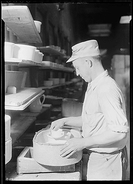 A kiln placer at Southern Potteries in Erwin, Tennessee, USA. Archived under "James White, a kiln placer at Southern Potteries, Elroy, Tennessee. White, like others employed at the Potteries, was reared on a mountain farm." ARC identifier 532756.